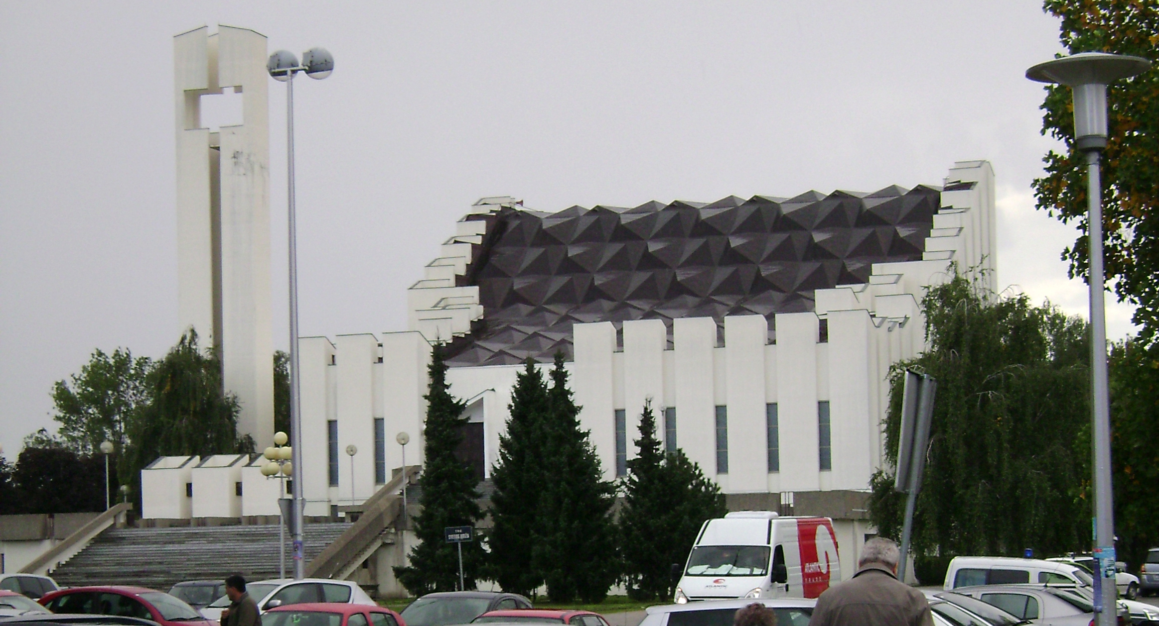 church St. Crux, Siget Zagreb